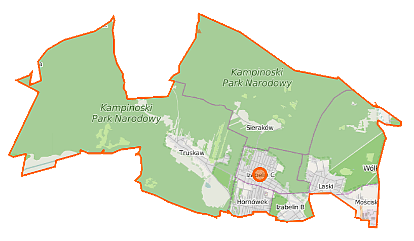 Map of Gmina Izabelin, Poland This map of Izabelin (gmina) was created from OpenStreetMap project data, collected by the community. This map may be incomplete, and may contain errors. Don't rely solely on it for navigation. Border coordinates52.354820.6711←↕→20.895752.2751